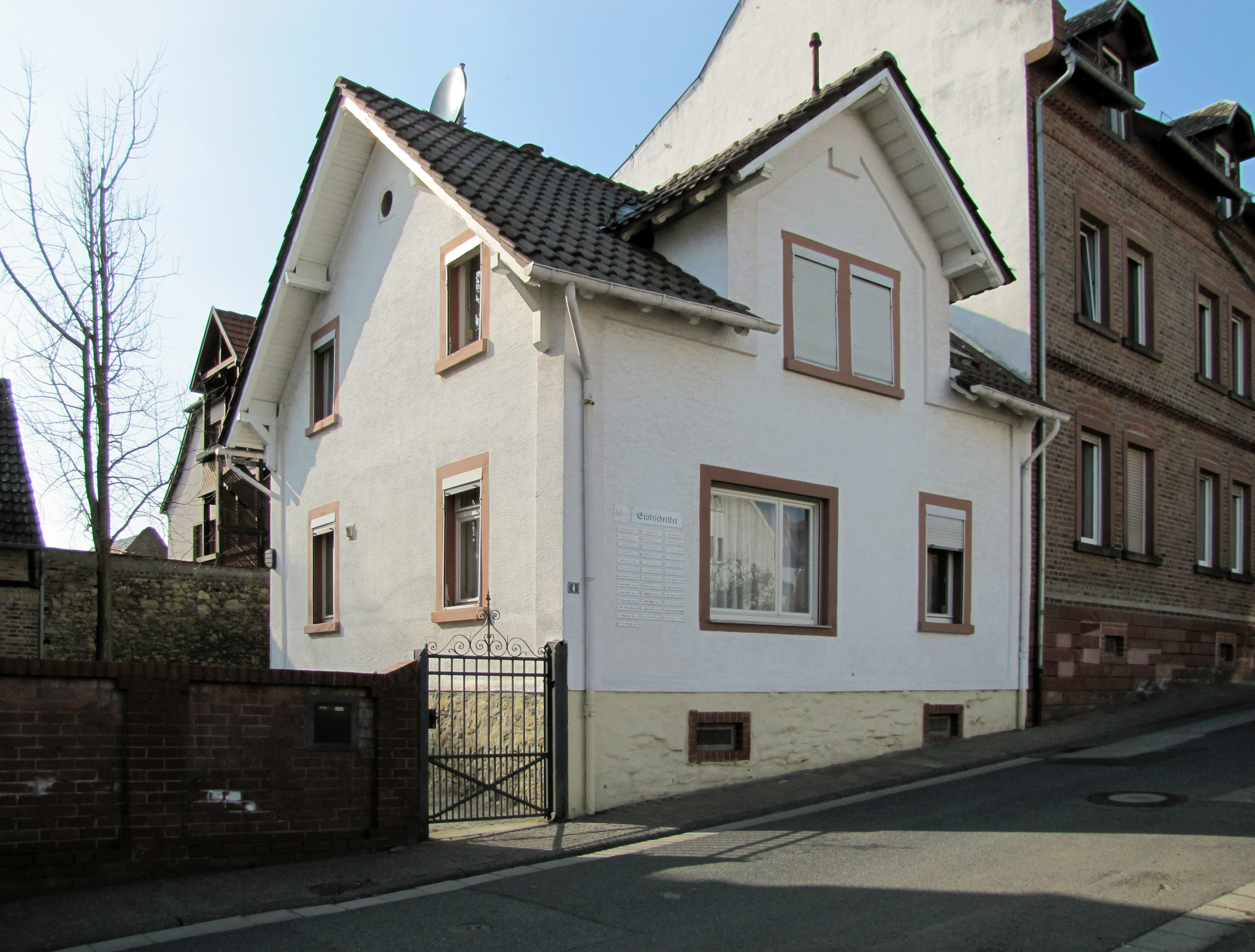 Stadtschreiberhaus as optional voluntary residence for the acting Stadtschreiber during one year, in Frankfurt Bergen-Enkheim